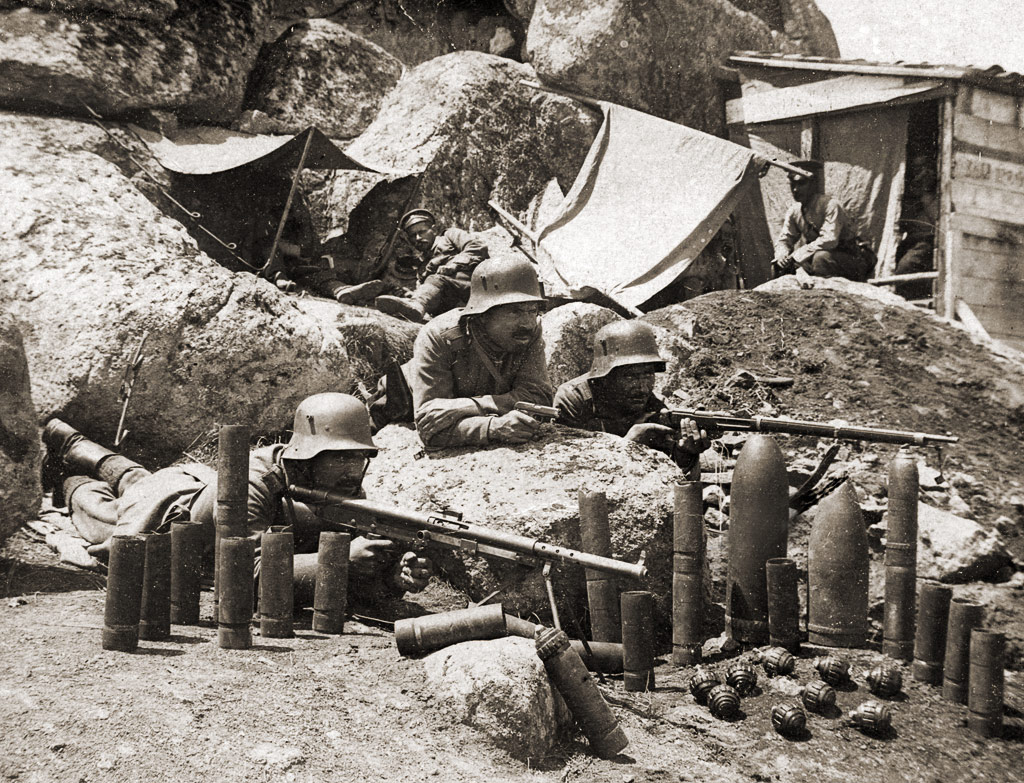 Bulgarian soldiers on the Southern front, World War I